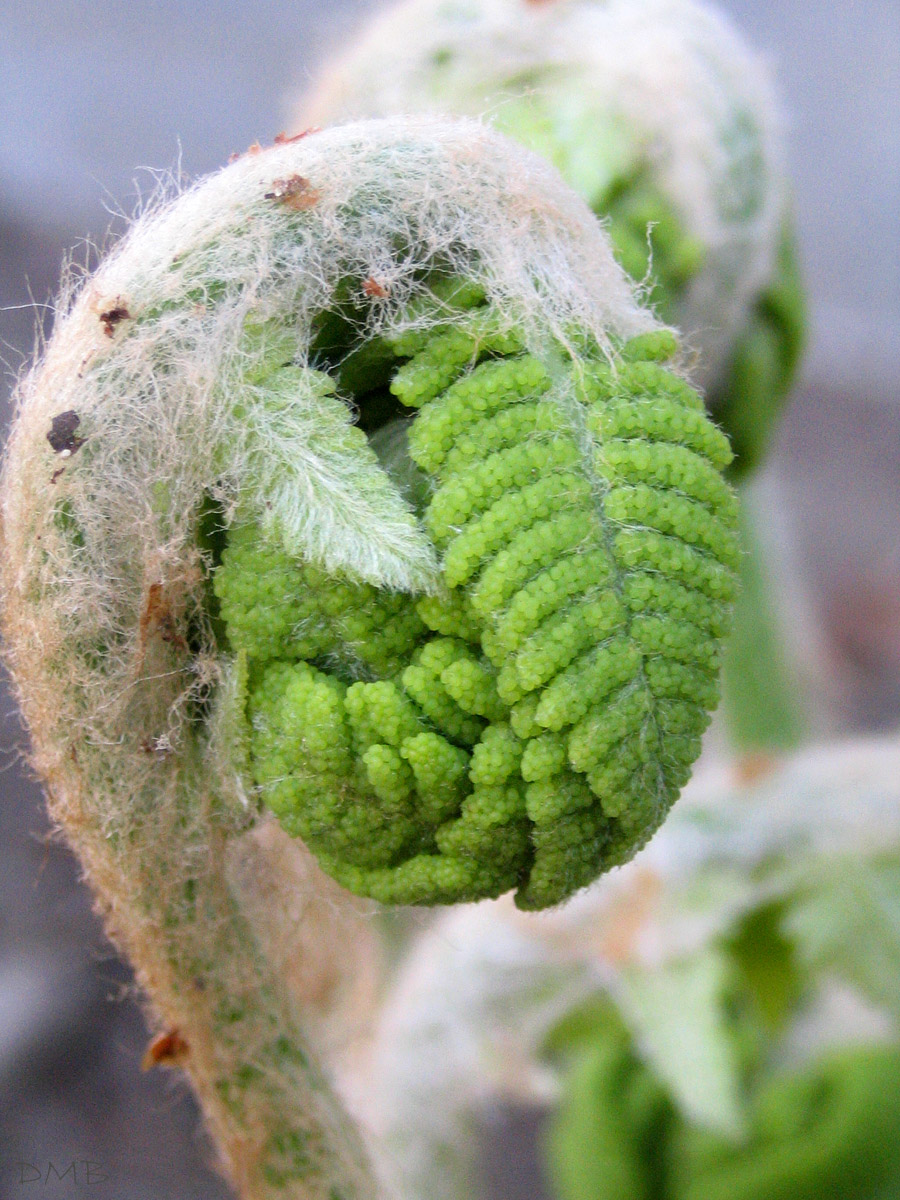 This photograph shows the circinate vernation of a fern frond. Species unknown. Photograph available on Flickr as Fuzzy Fern uploaded by user dawnzy licensed as cc by-sa.